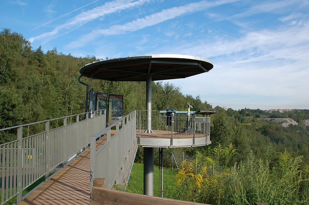 Grube Messel, near Darmstadt, Germany